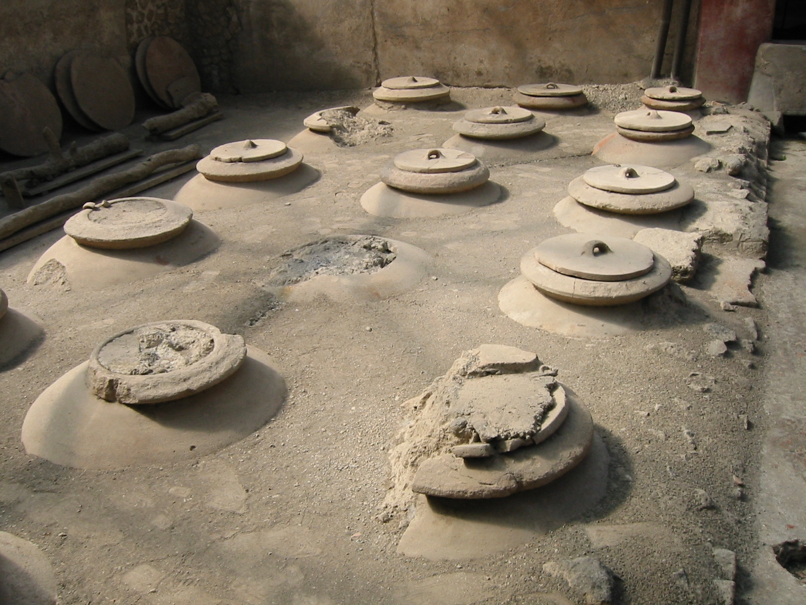 Dolia for storing wine in the ancient roman Villa Rustica in Boscoreale in Italy